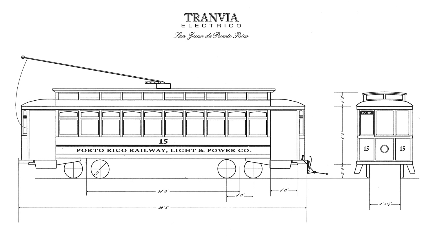 Drawing of early tram created in illustrator and photoshop from public domain data information obtained from several internet sources and printed encyclopedias.